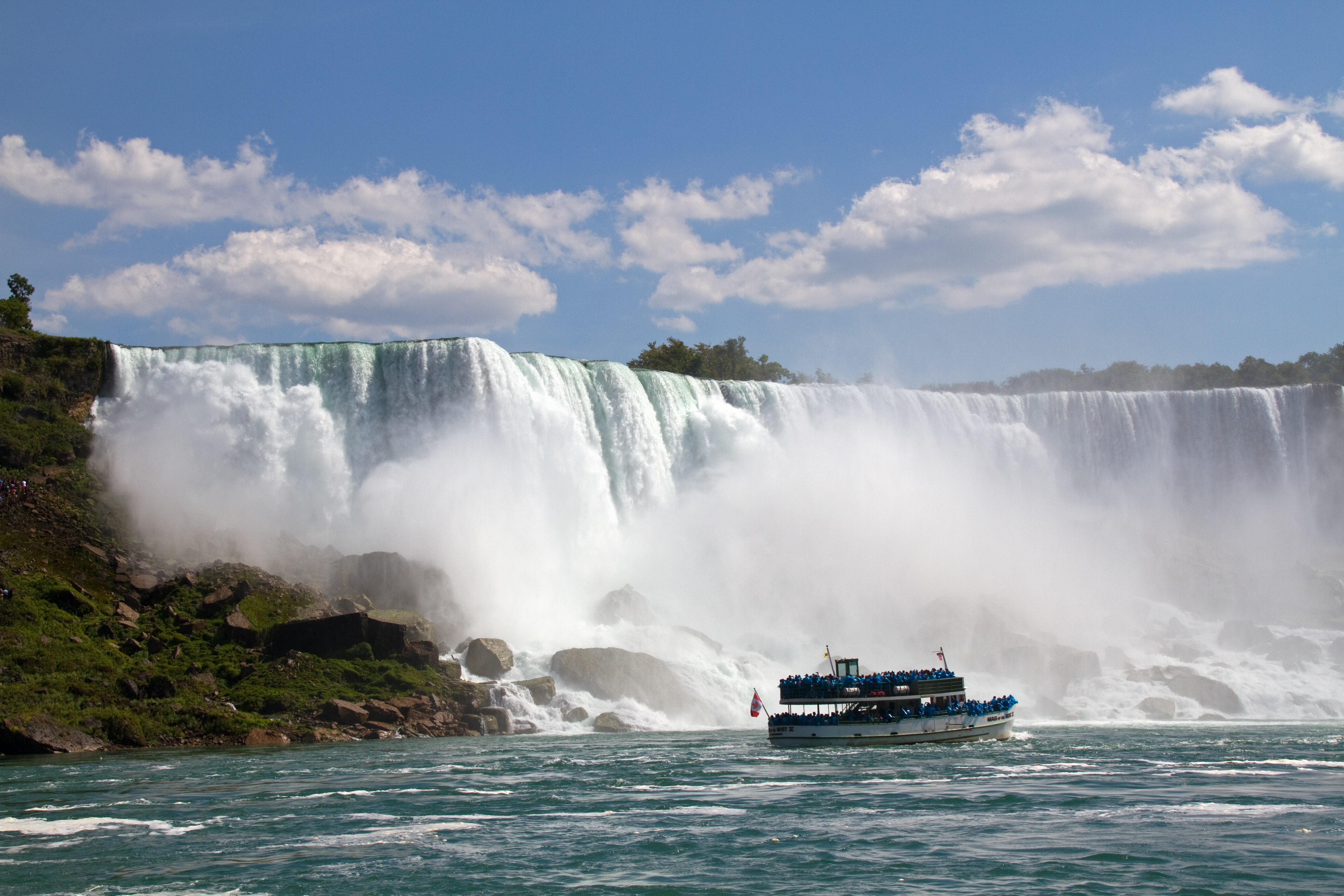 Niagara American Falls 4